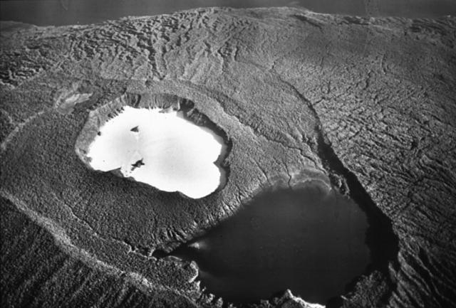 Aoba volcano from the SE.